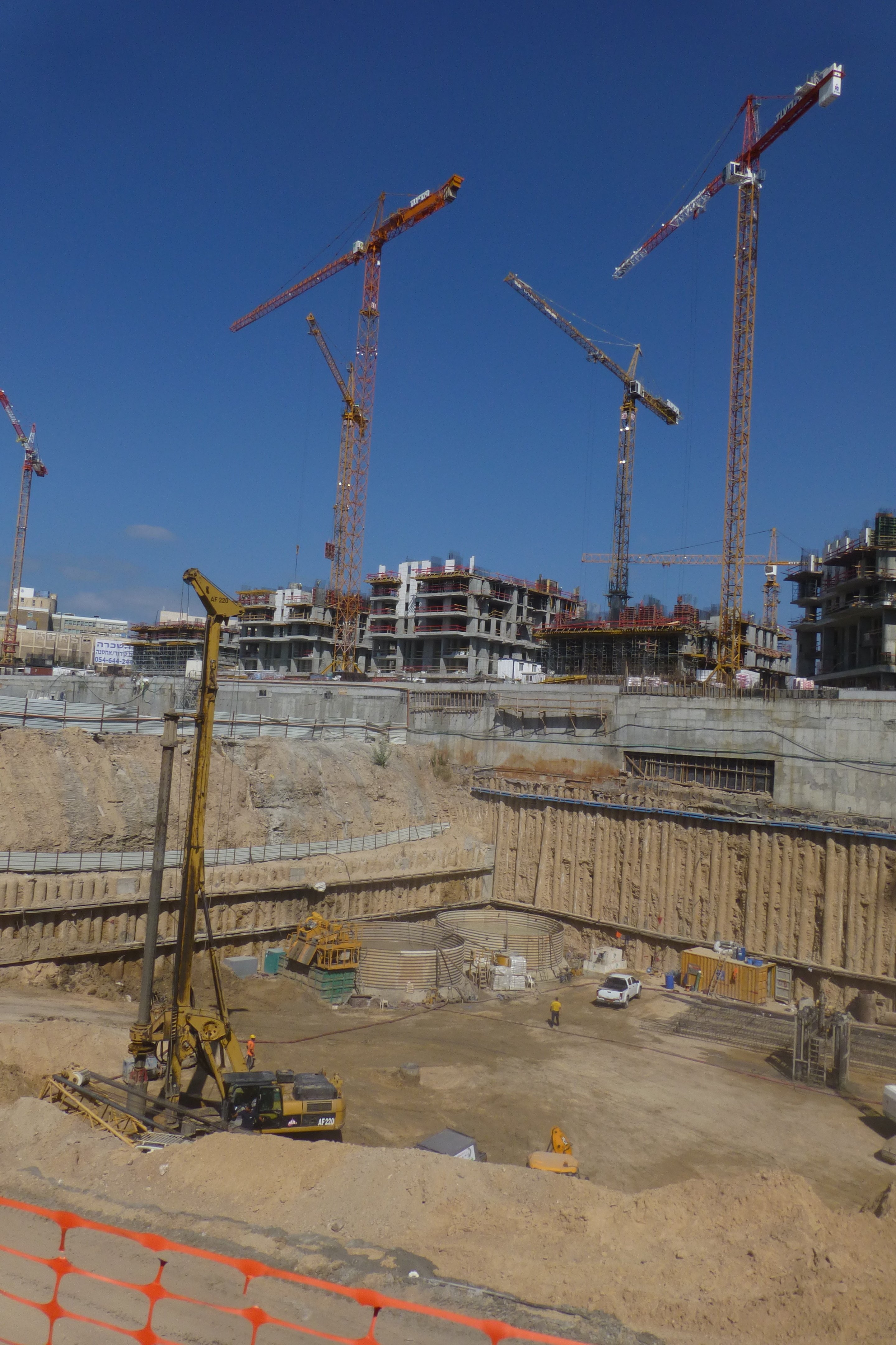 Begin Road, Tel Aviv-Yafo